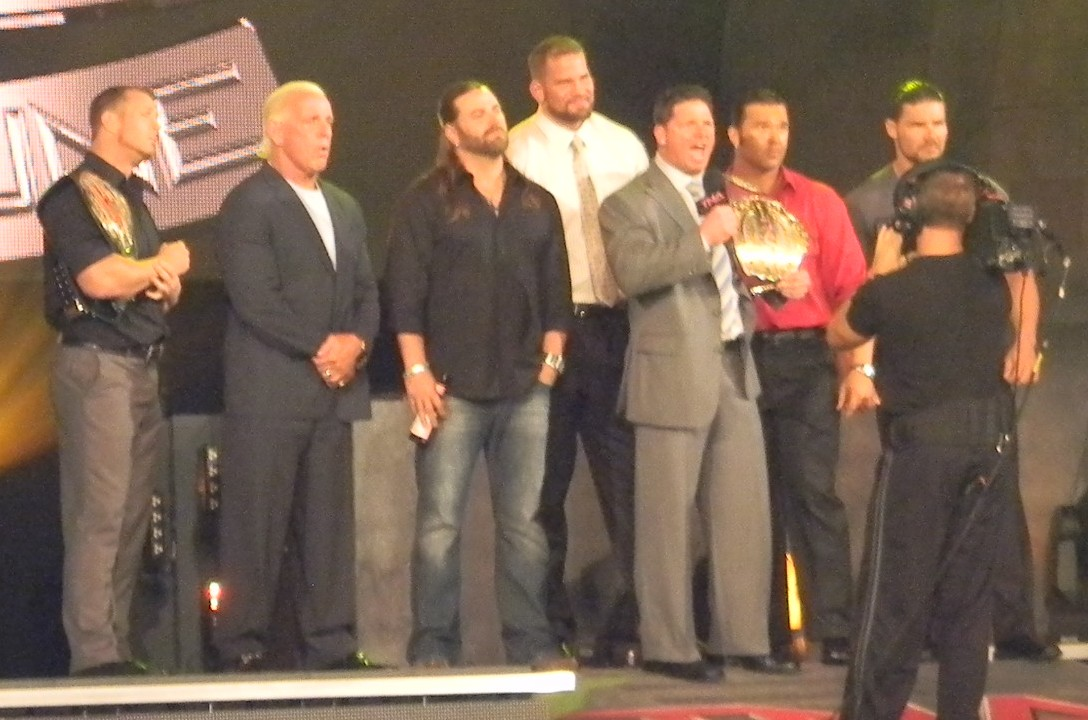 The full group of Fortune talks about their matches against EV 2 members at No Surrender.